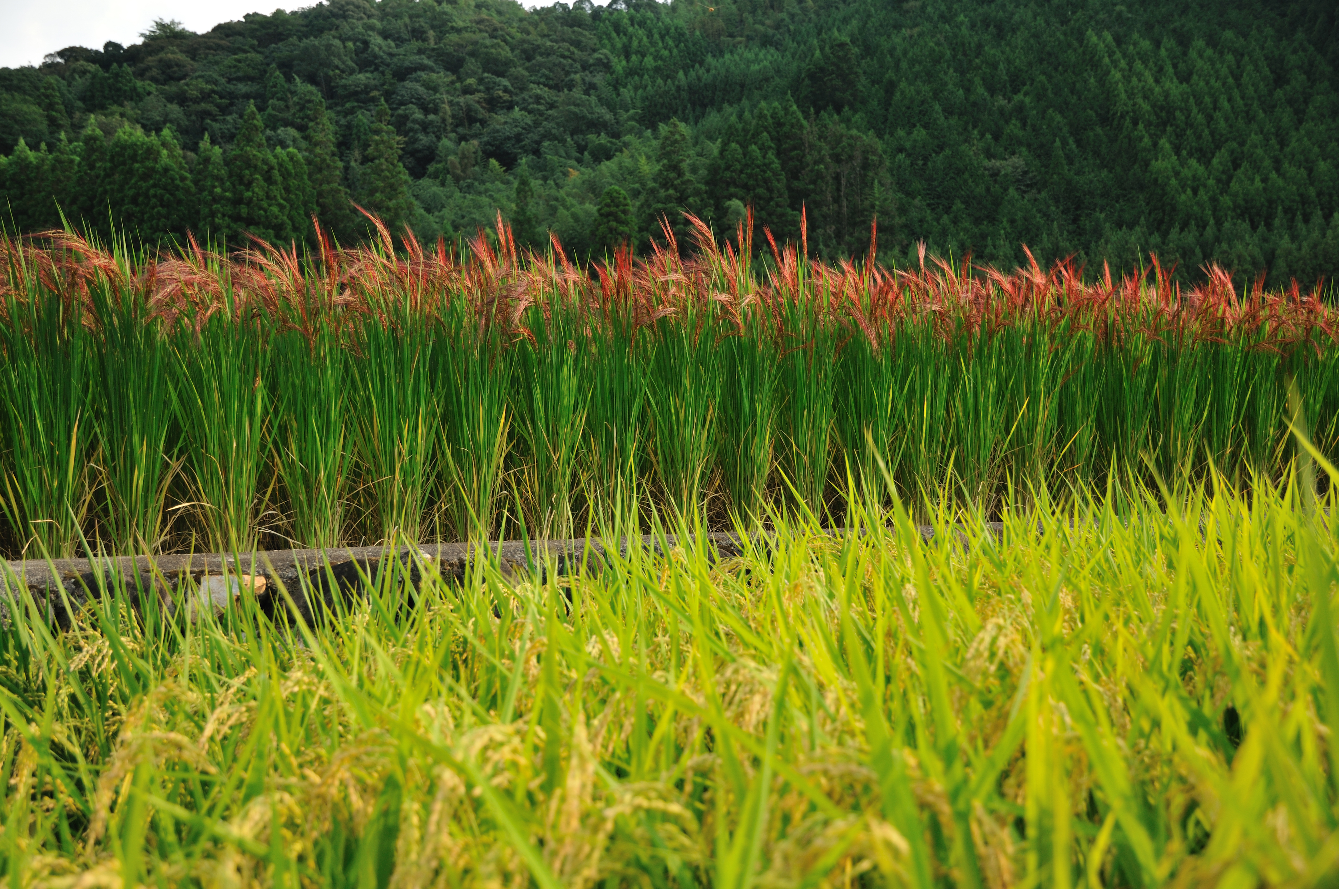 Red Rice Paddy field in Hoshino,Yame,Fukuoka Prefecture,Japan